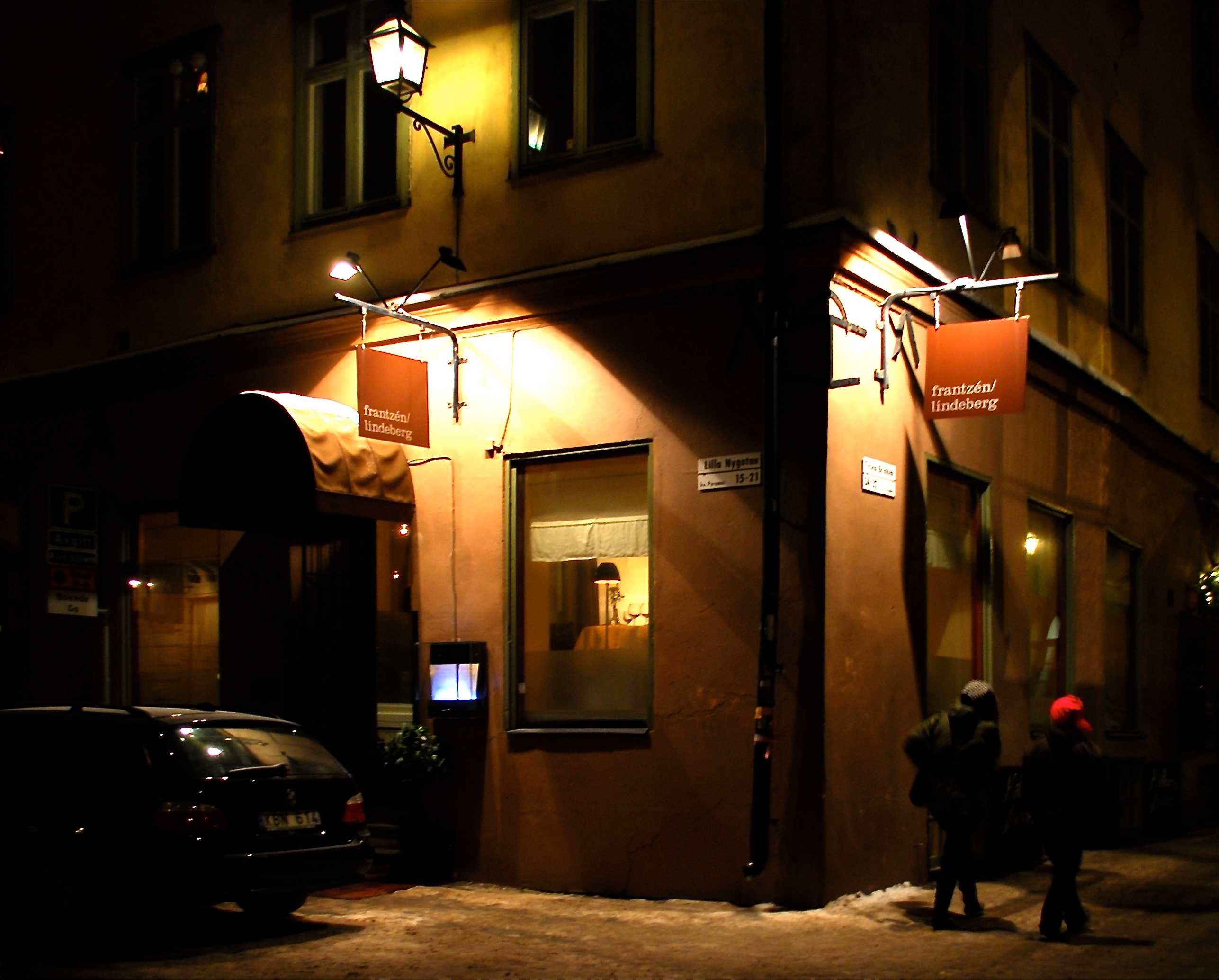 Frantzén/Lindeberg, restaurant in Gamla stan (Old town), Stockholm. In 2010, it received two stars in Guide Michelin, one of currently two two-starred restaurants in Sweden (the other being Mathias Dahlgren) and four in the Nordic countries.